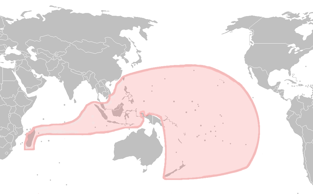 Austronesian languages map.